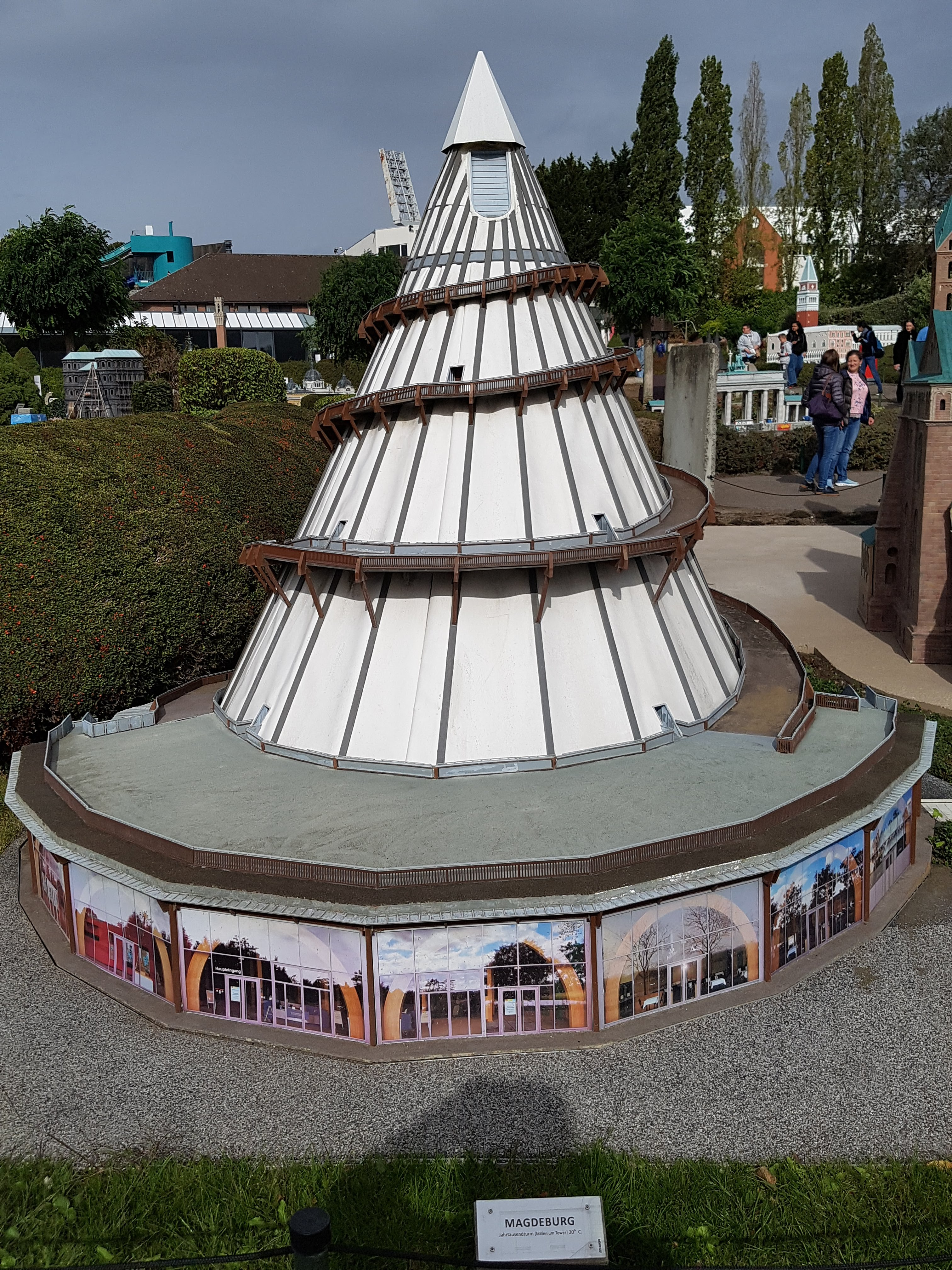 Jahrtausendturm of Magdeburg in Mini Europe